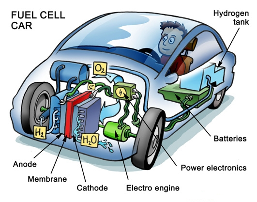 Cutaway illustration of a fuel cell car